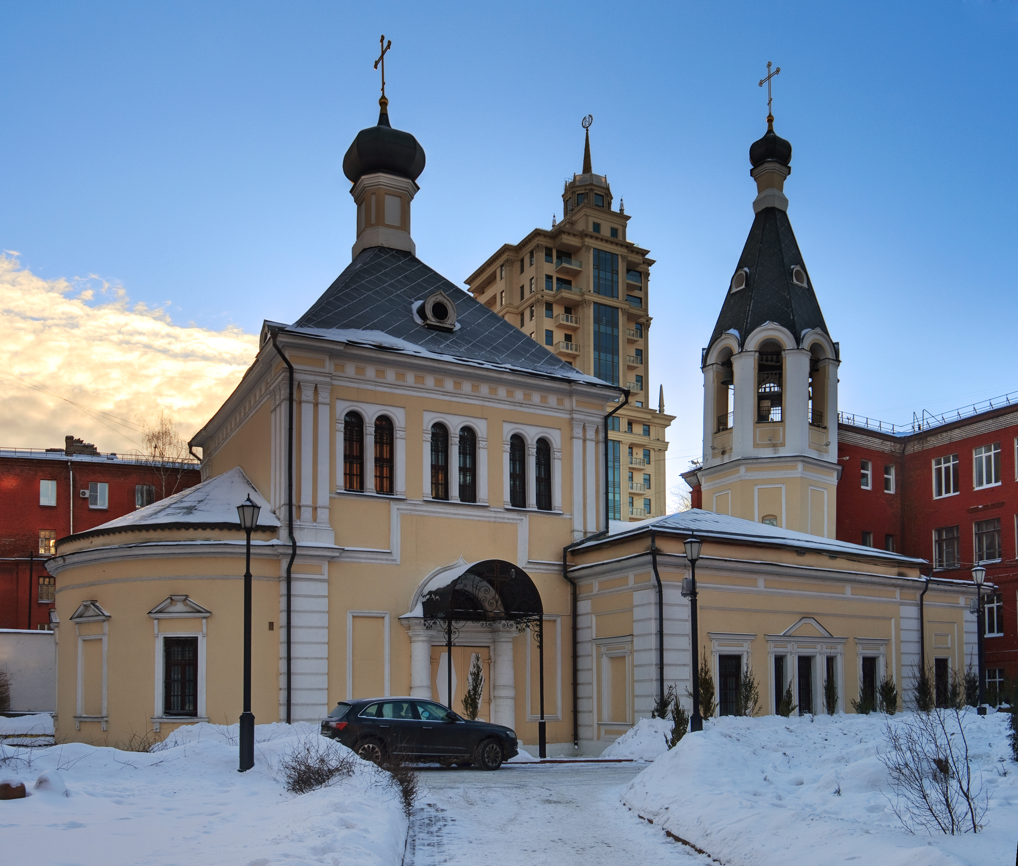 Church of Saint Maron, Bolshaya Yakimanka Street 32 str 2, Moscow, Russia